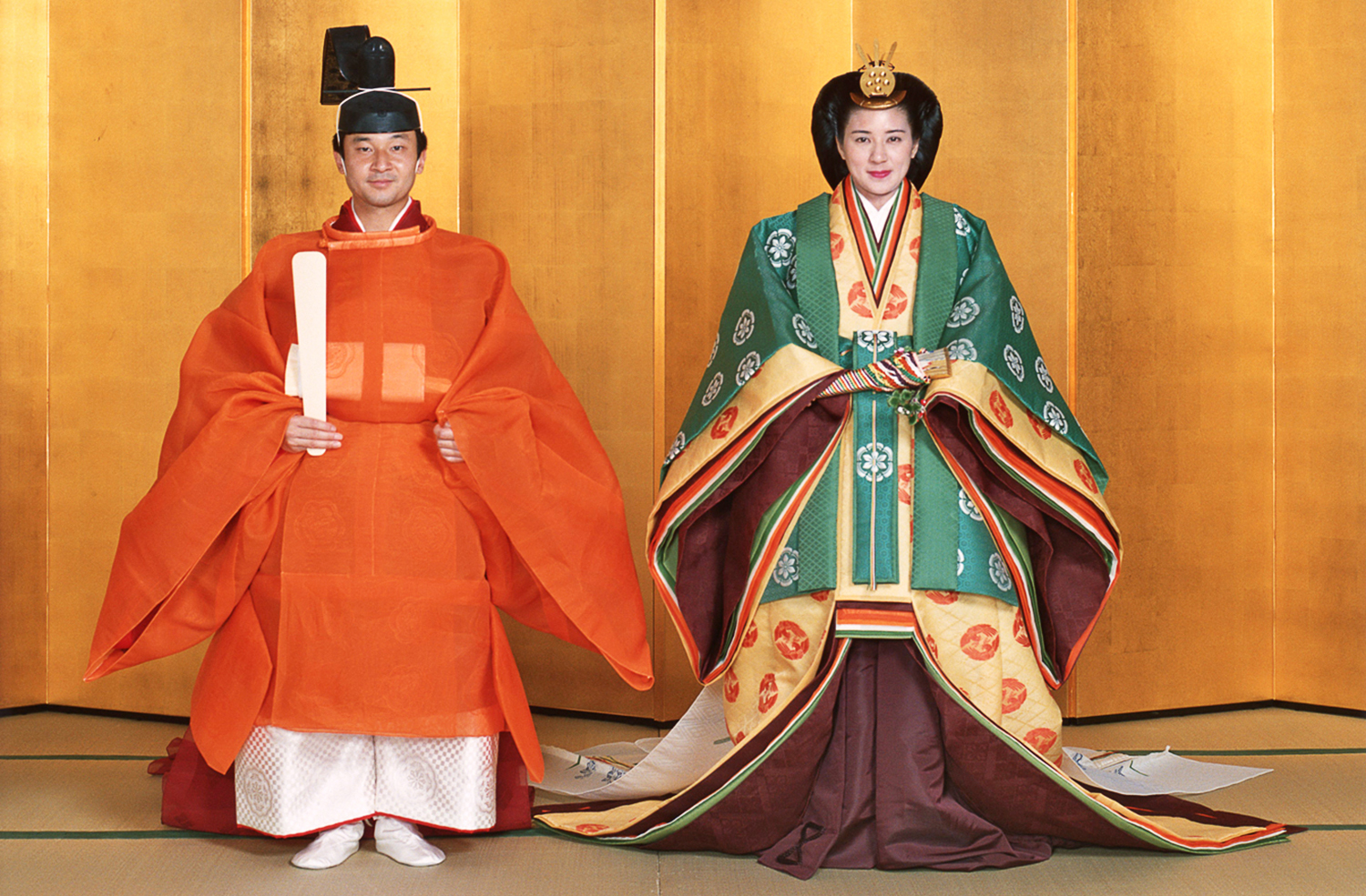 Wedding ceremony between Crown Prince Naruhito (His Majesty the Emperor) and Crown Princess Masako (Her Majesty the Empress) June 9, 1993